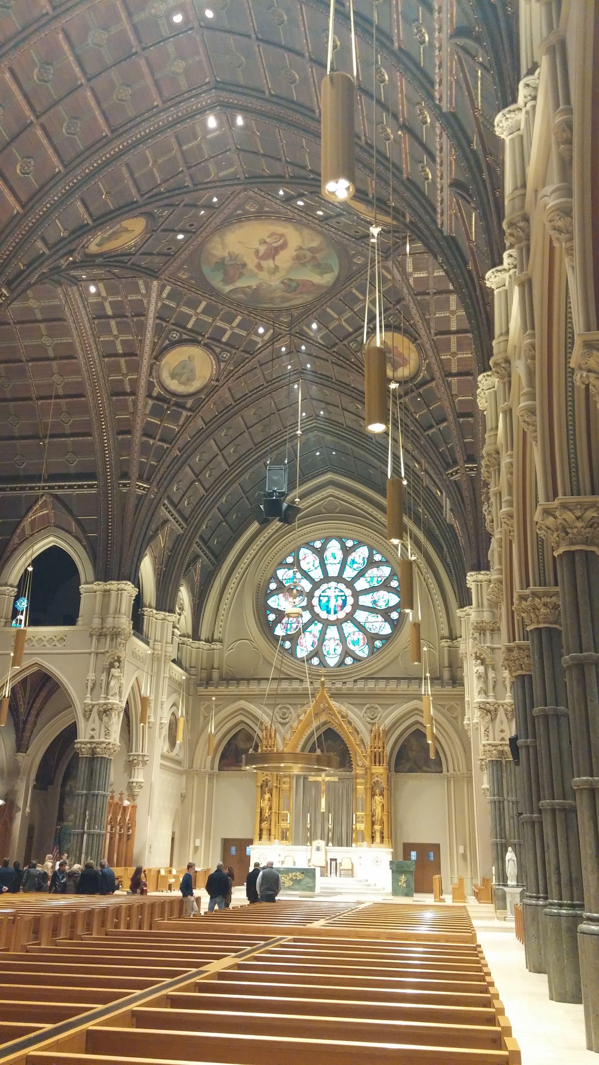 Photograph taken from the side of aisle looking towards the alter of the Cathedral of SS. Peter and Paul, Providence, RI